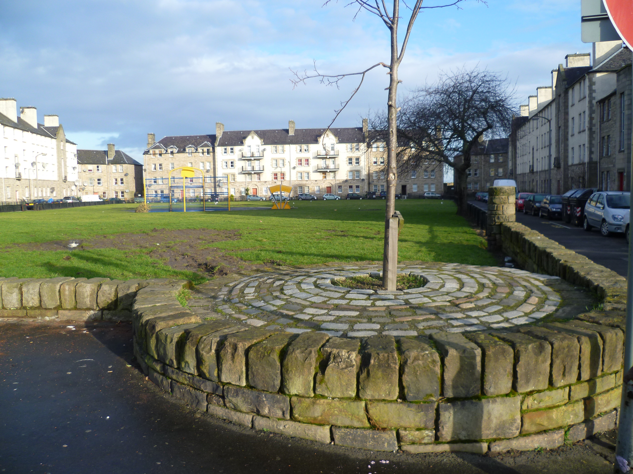 Remains of a barracks wall tower at the north-east corner of Piershill Square West.